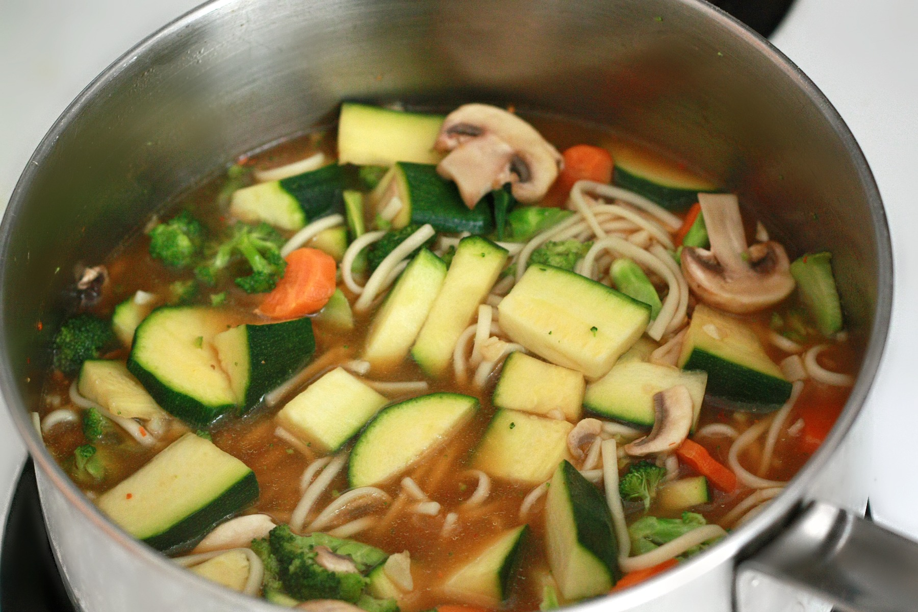 Vegetable udon noodle soup